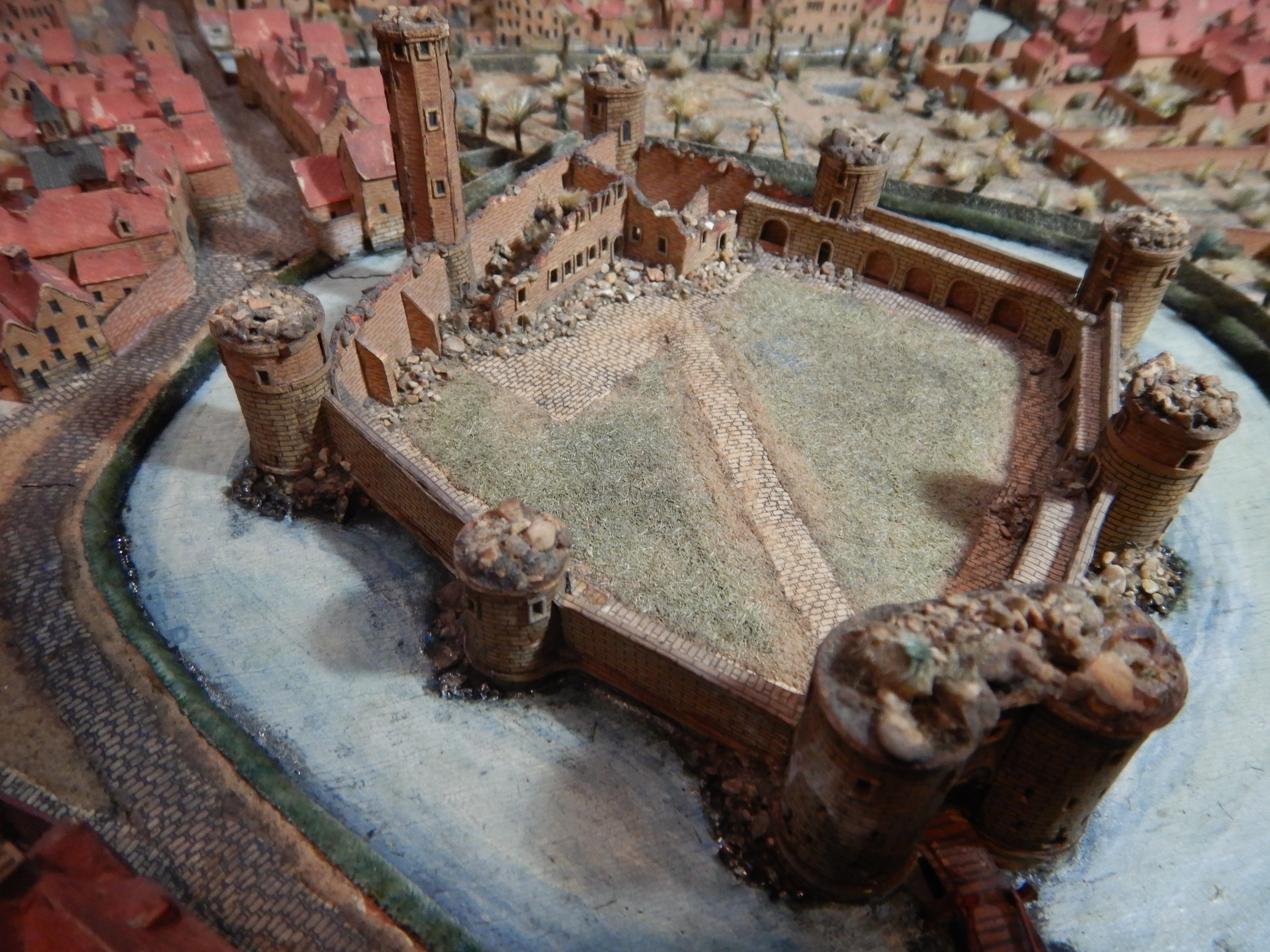 Detail of one of the Plans-reliefs representing the city of Oudenaarde, commissioned by Louis XIV. This plan is kept and exhibited at the Palais des Beaux-Arts in Lille, and here photographed during restoration (19 December 2018). Description: in the first and second plan : medieval castle in ruins, located in the city of Oudenaarde and surrounded by moats with water. Third floor: brick houses with red tiled roofs and some gardens surrounding the water that protects the castle